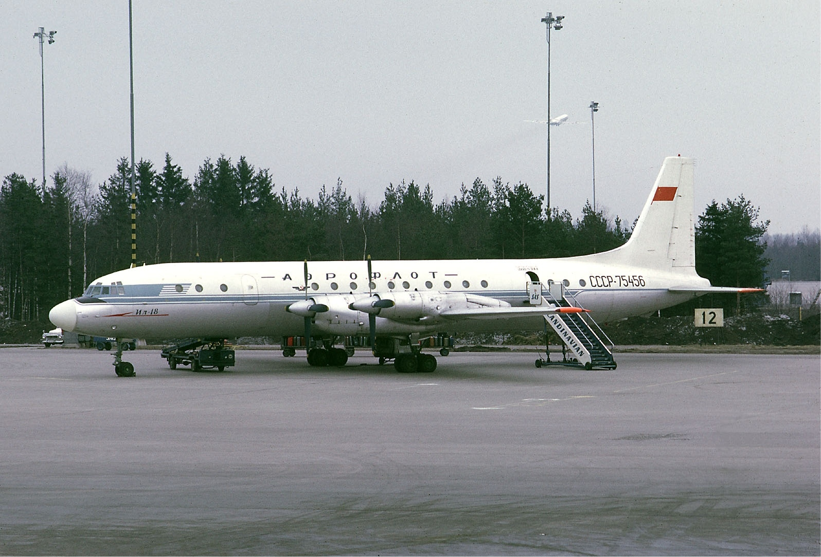 Ilyushin Il-18D of Aeroflot at Arlanda Airport